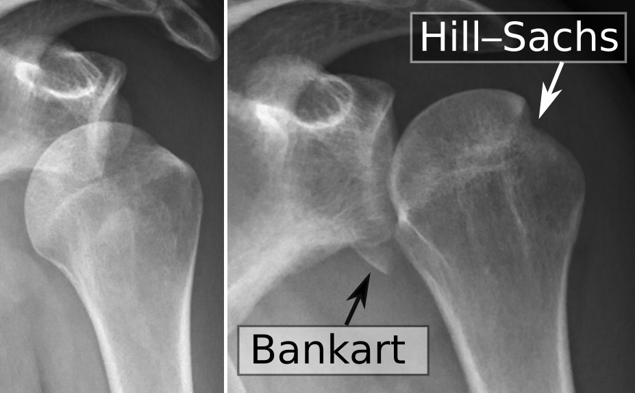 edit X-rays of the left shoulder of a 25 year old male who had a dislocation when trying to get up from his bed. Anteroposterior projection shows a dislocation. Y-projection shows anterior dislocation Anteroposterior projection with internal rotation after reduction, showing a bony Bankart lesion and a Hill–Sachs lesion. Y-projection. Both before and after reduction, with lesions labeled. Vector (.svg) version is available. The bony Bankart lesion is new, as evidenced by lack of cortex on the superior part of the fragment, and is presumed to be caused by glenohumeral ligaments pulling the humerus towards the glenoid as the shoulder dislocates, causing a fracture even without significant external forces. The Hill-Sachs lesion may be old, since the patient had previous shoulder dislocations.